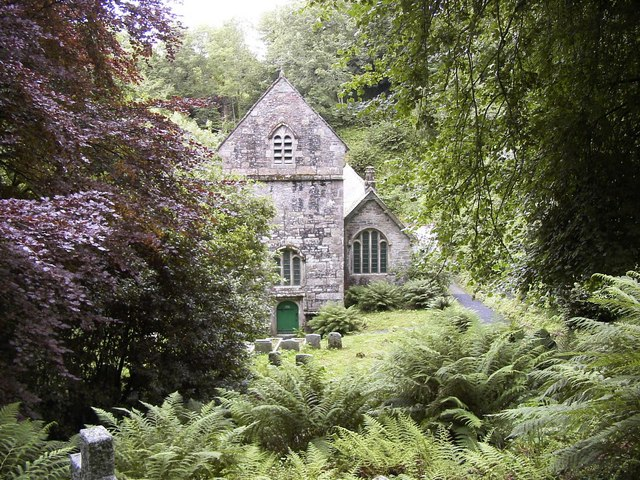 The Church of Saint Merteriana, Minster, Cornwall. The Church is somewhat hidden and easily missed as it lies below a very narrow country lane, even if you can find the lane which is a little side road off to the left by the speed limit sign as you leave Boscastle on the ? not marked on current road maps (neither is Minster)you will have to ask a local. If you can find the time this church is well worth a visit, the beauty and serenity is overbearing. The reason for my visit? my Great Great Great Grandfather Christopher Burnard married my Great Great Great Grandmother Sarah Broad on the 3rd April 1836